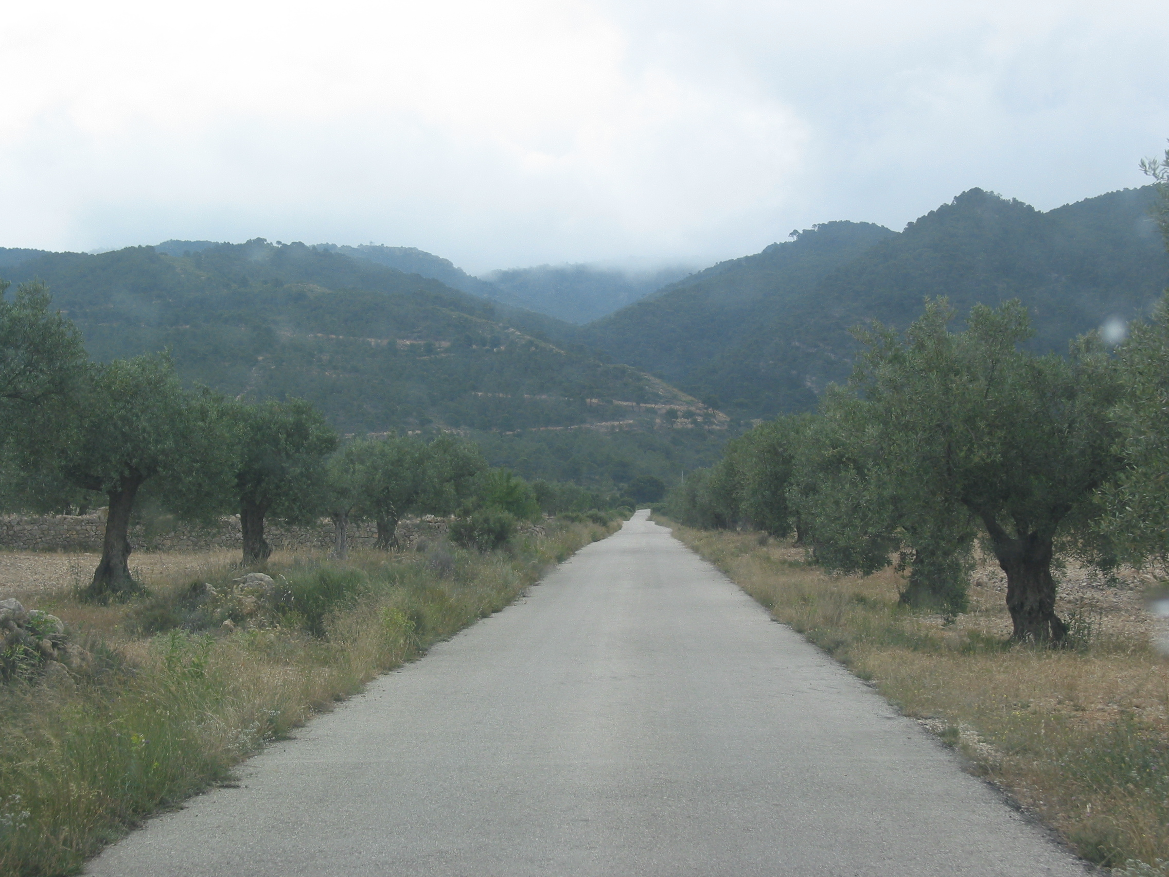 This is a photography of a Site of Community Importance in Spain with the ID: ES6200008. Natura2000 entry, EEA entry